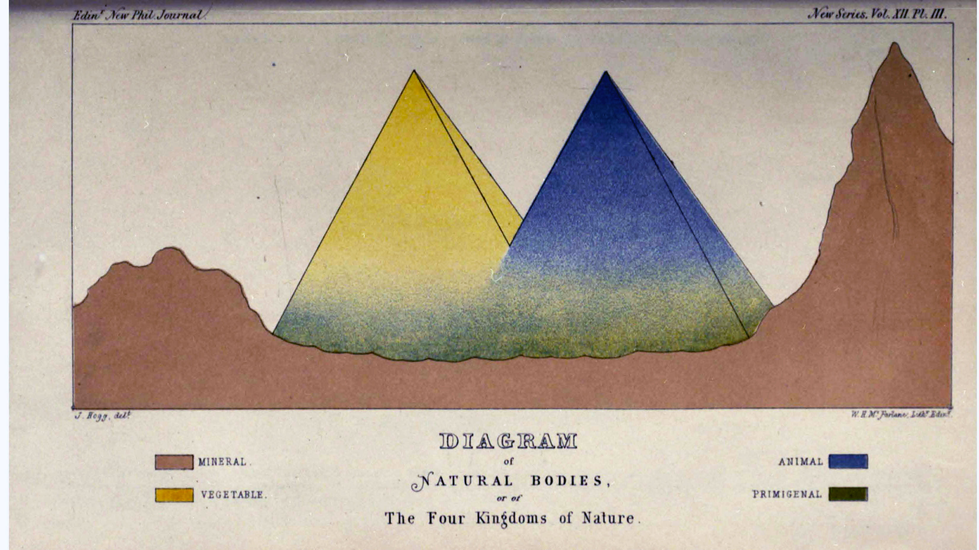 John Hogg's illustration of the Four Kingdoms of Nature, including a new Kingdom Primigenum, consisting of the protozoa and protophyta (Protoctista)